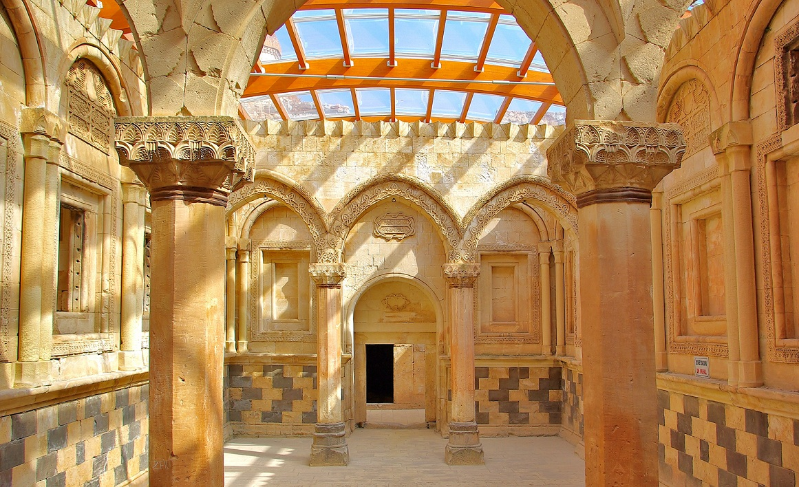 Interior view of the place